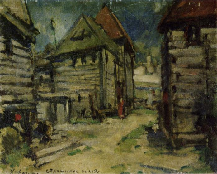 Scene design for Khovanshchina, Act 3, by Korovin, 1911